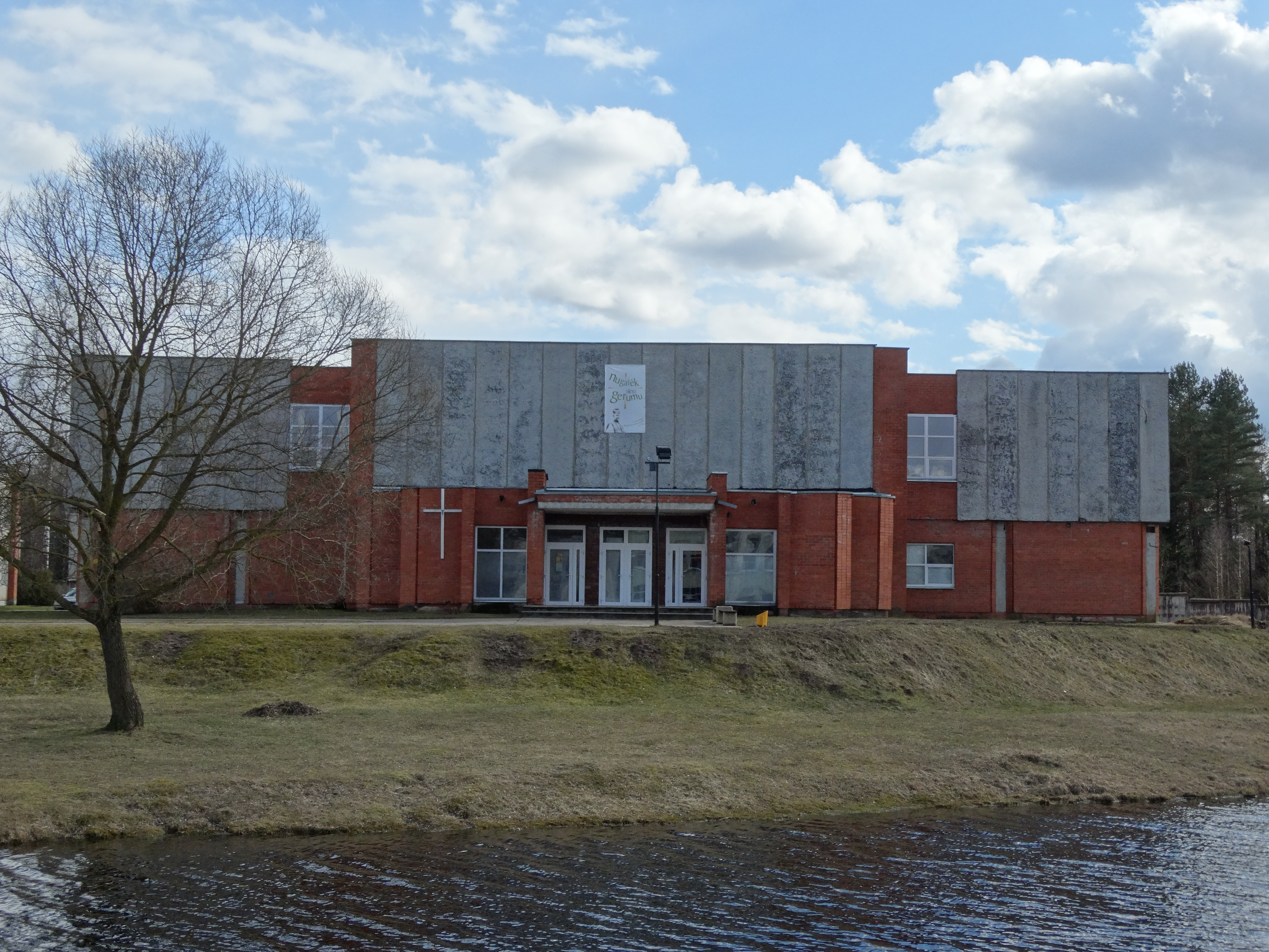 Chapel, Rukla, Jonava district, Lithuania